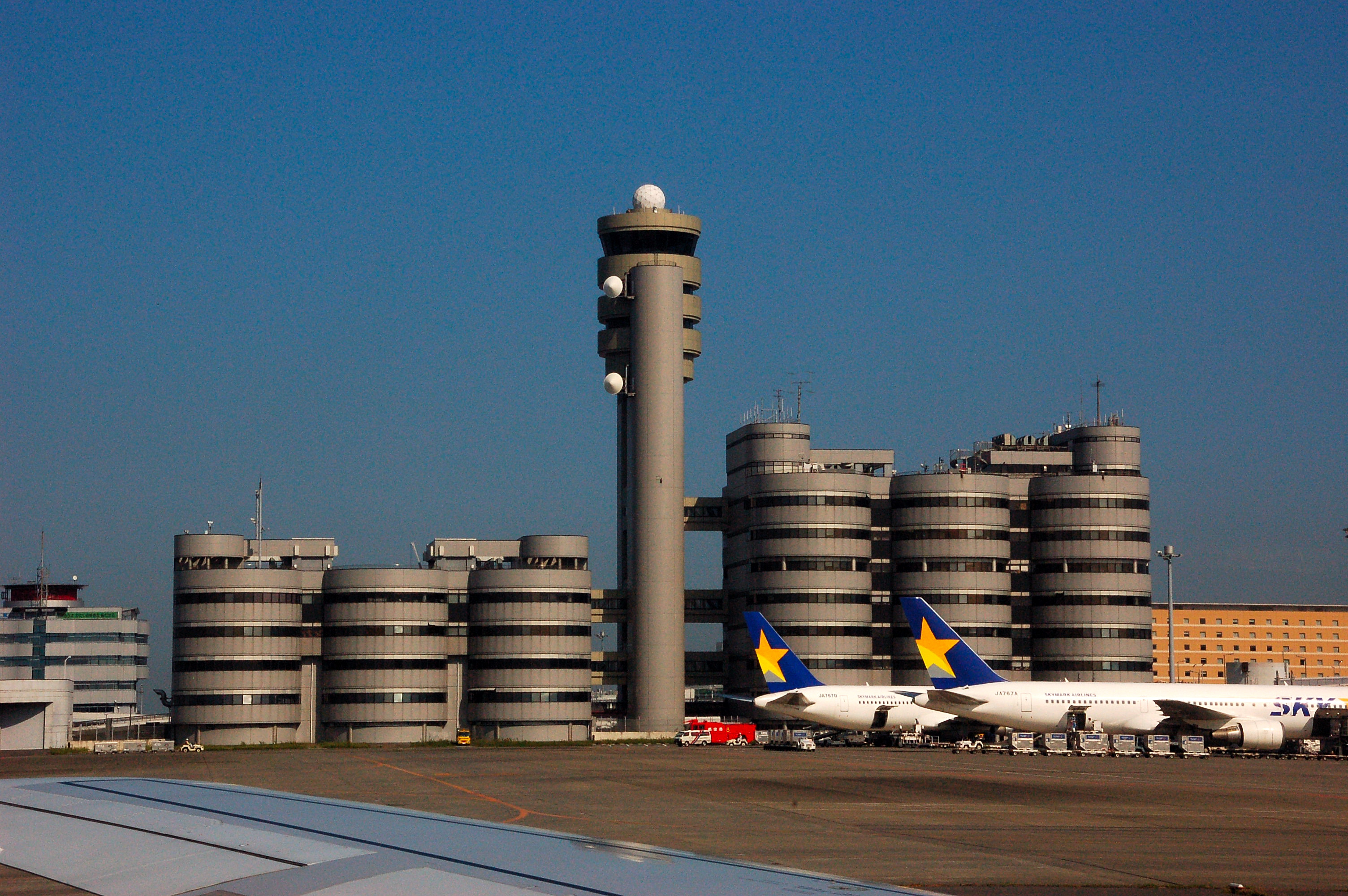 Oct 11, 2007 at 13:15 JST, Haneda/Tokyo